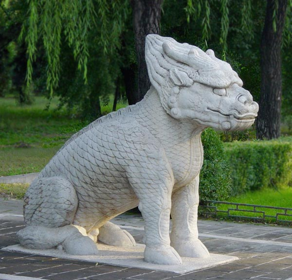 Ming dynasty qilin of the dragon-fish style. Note the double horns, dragon head, oxen hoves and fish skin hide. Carved marble sculpture located at the Ming Tombs Sacred Walk. Picture taken late September 2002 by Leonard G. Selectively digitally blurred for jpeg image storage reduction.